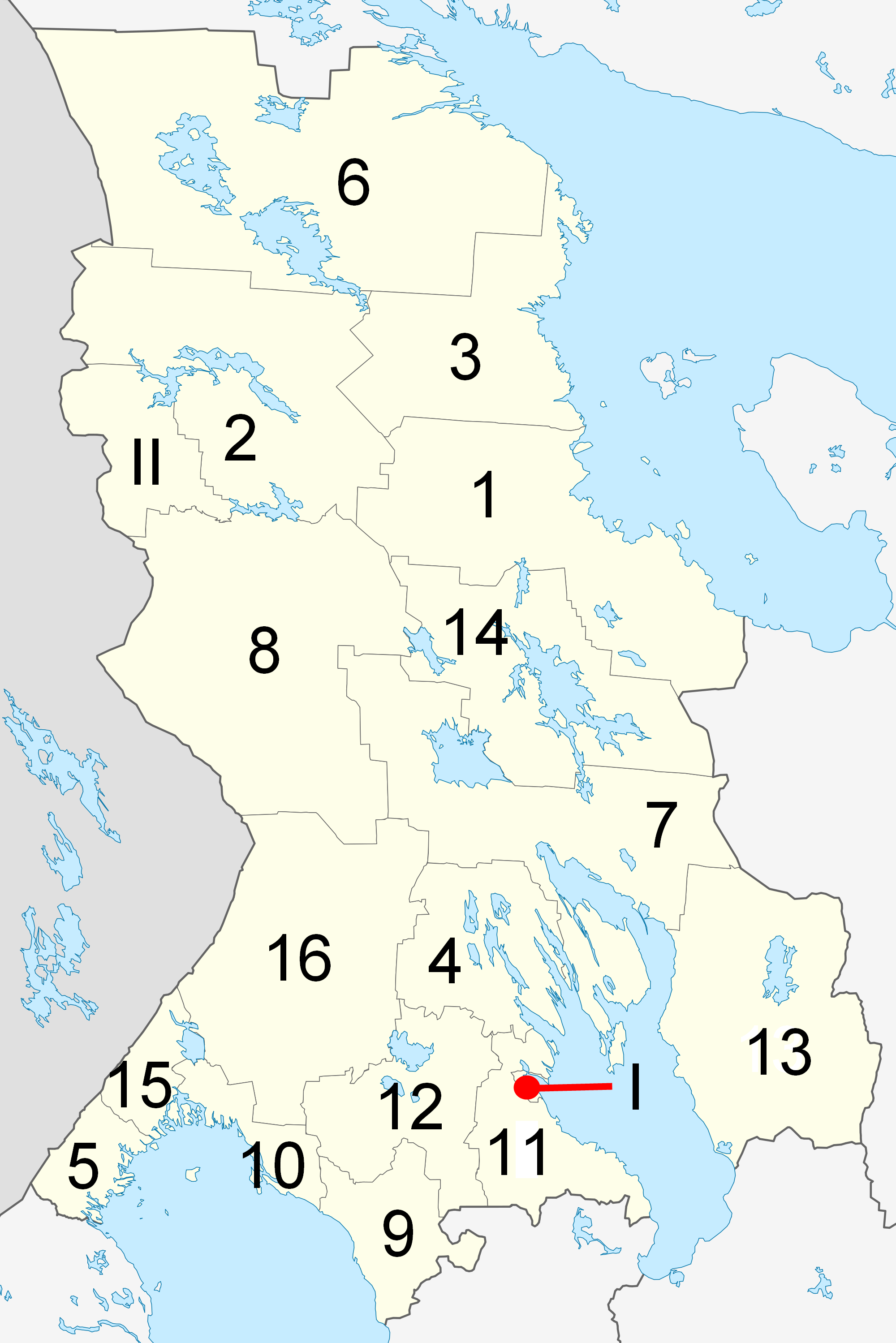 Numbered map of Republik Karelija